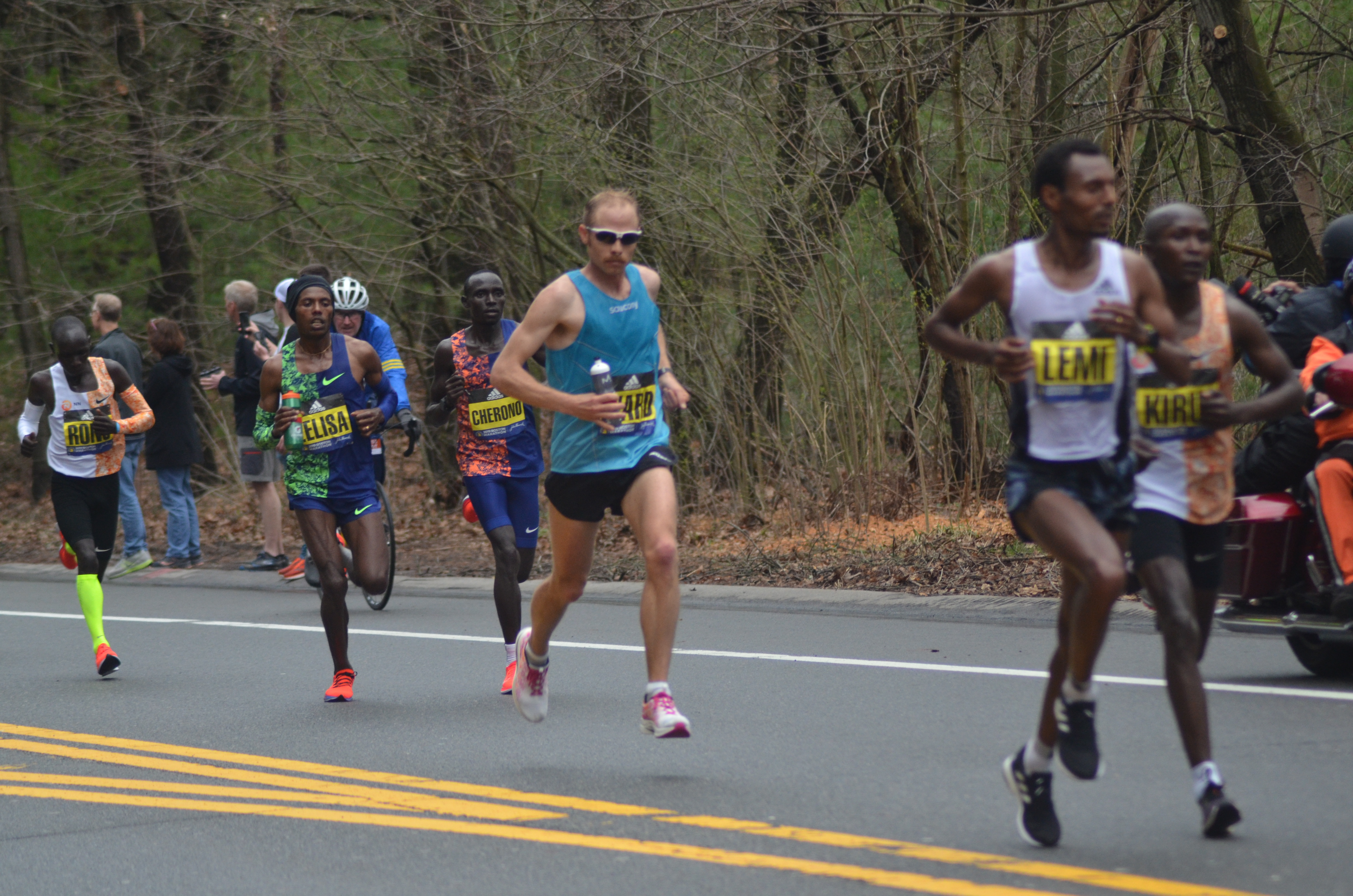 2019 Boston Marathon Lead Pack of men approaching half way point just past the Scream Tunnel, just before Wellesley Square